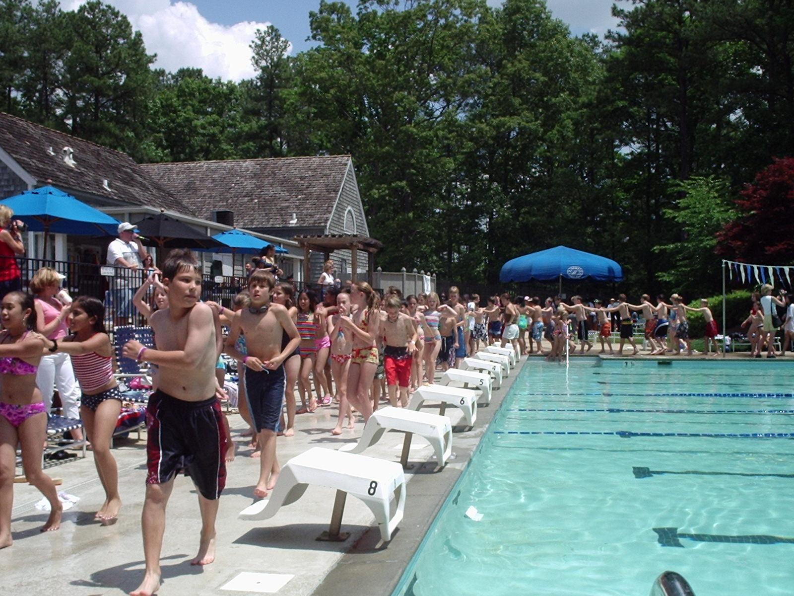 A crowded swimming pool. A conga line is being formed by some of the children.